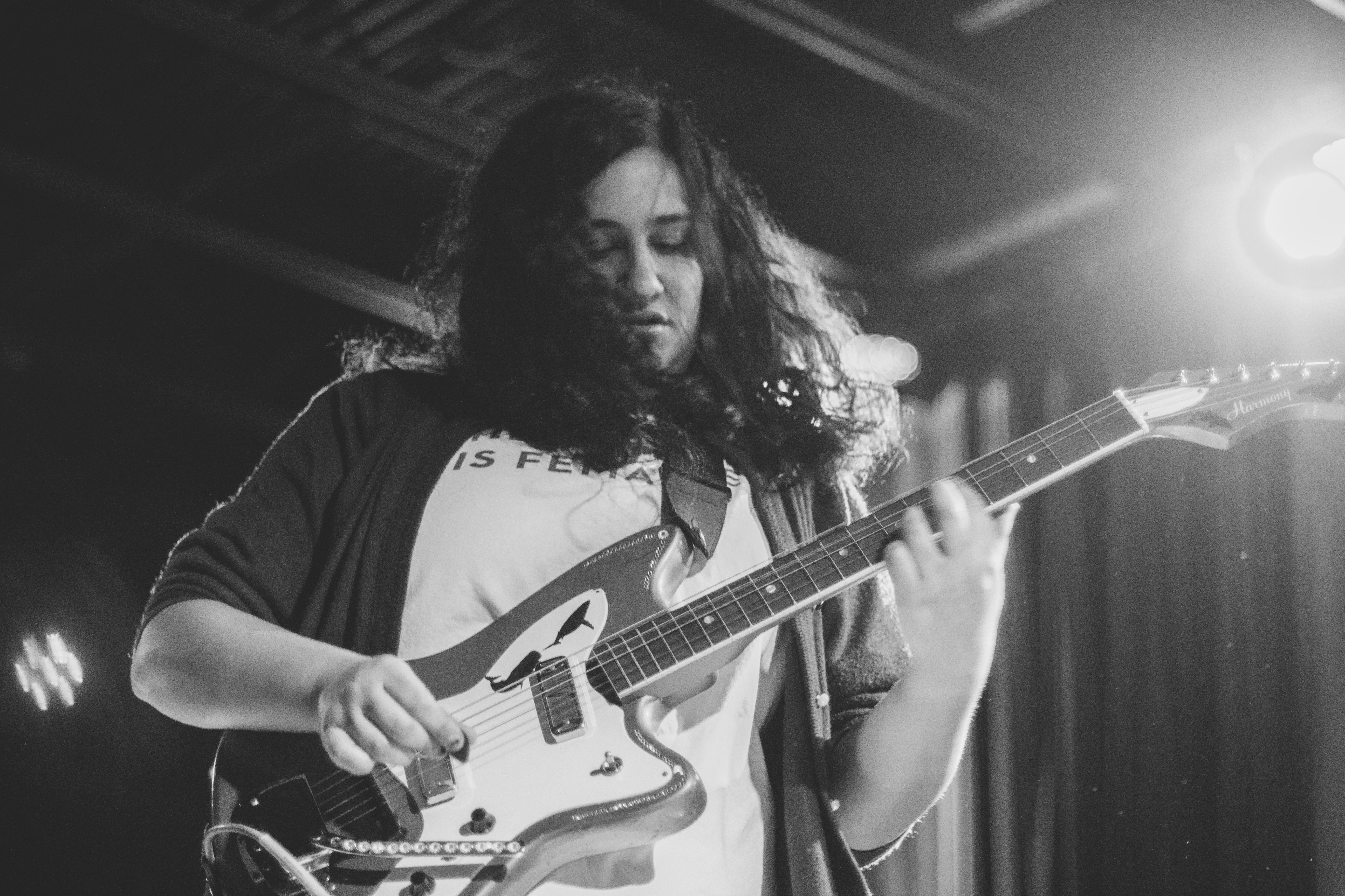 Image of Palehound's Ellen Kempner.